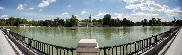 Parque del Retiro; Madrid, Madrid, Spain; ; ; Photographer: Paul M.R. Maeyaert; © Paul M.R. Maeyaert; ; Cultural heritage; Europeana; Europe/Spain/Madrid; Wiki Commons